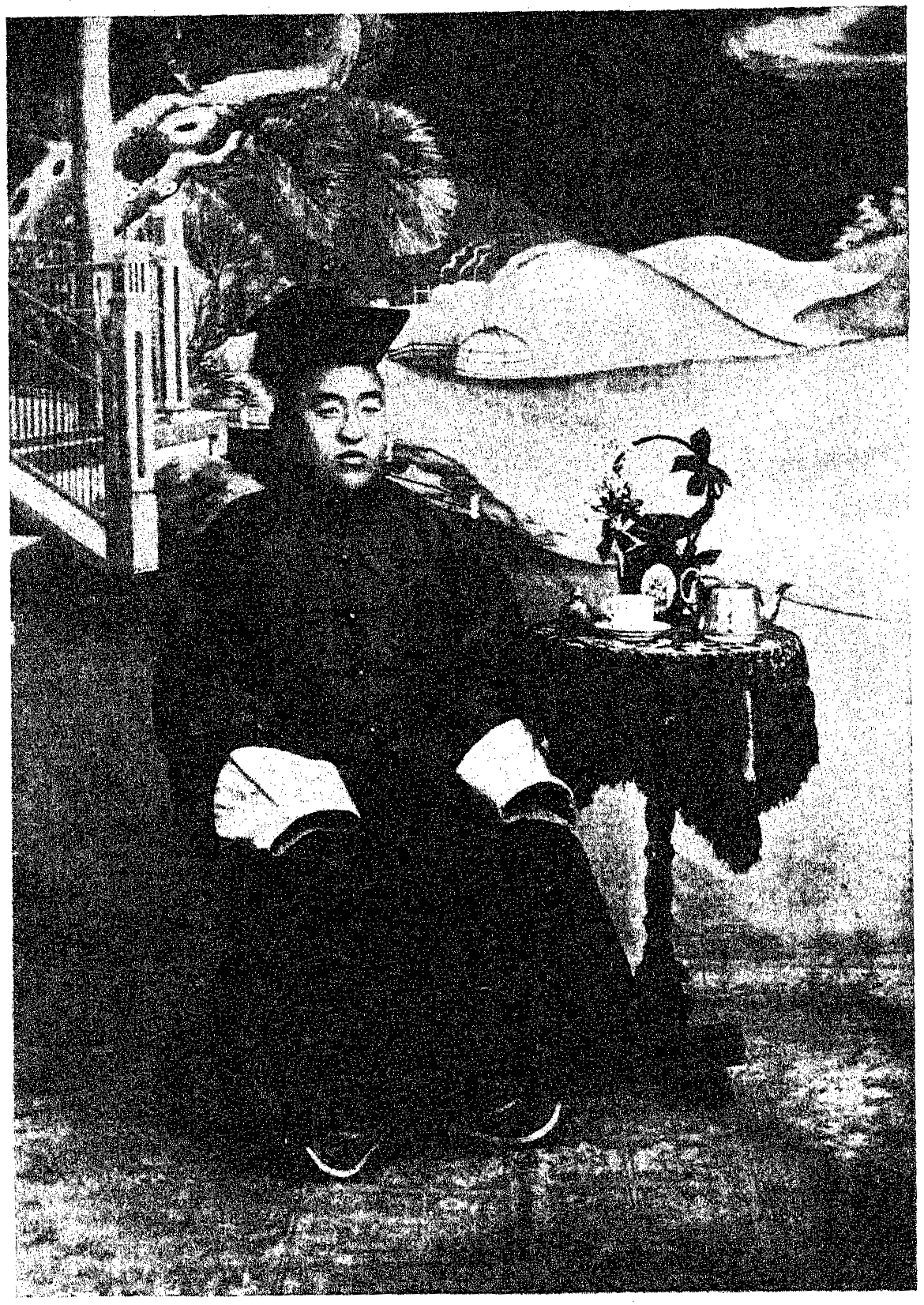 Image from With the Russians in Mongolia. Maybe Khanddorj